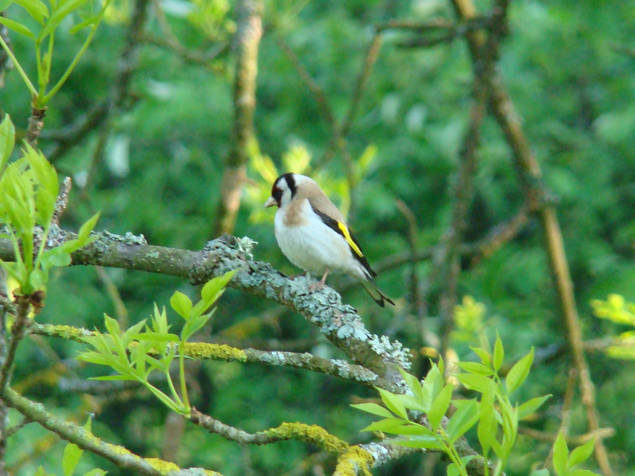 Photo of the European Goldfinch ( Carduelis carduelis ) in Vingis park, Vilnius, Lithuania.